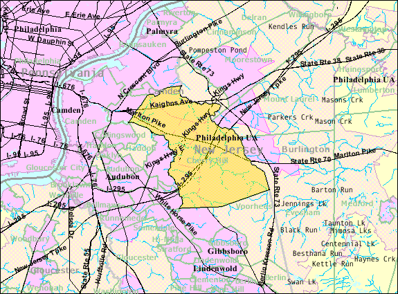 Census Bureau map of Cherry Hill, New Jersey